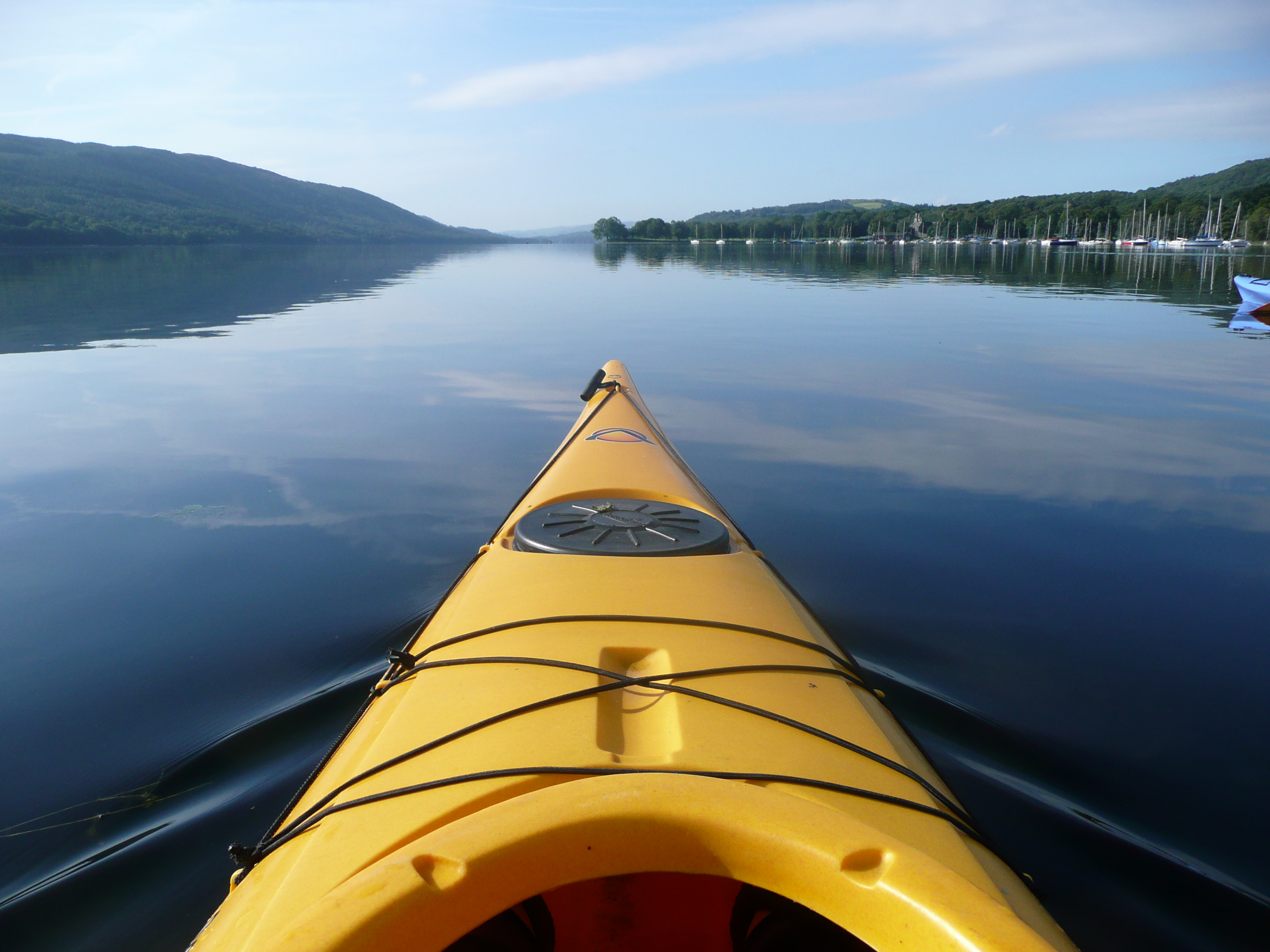 Katakers view of Lake Coniston Cumbria